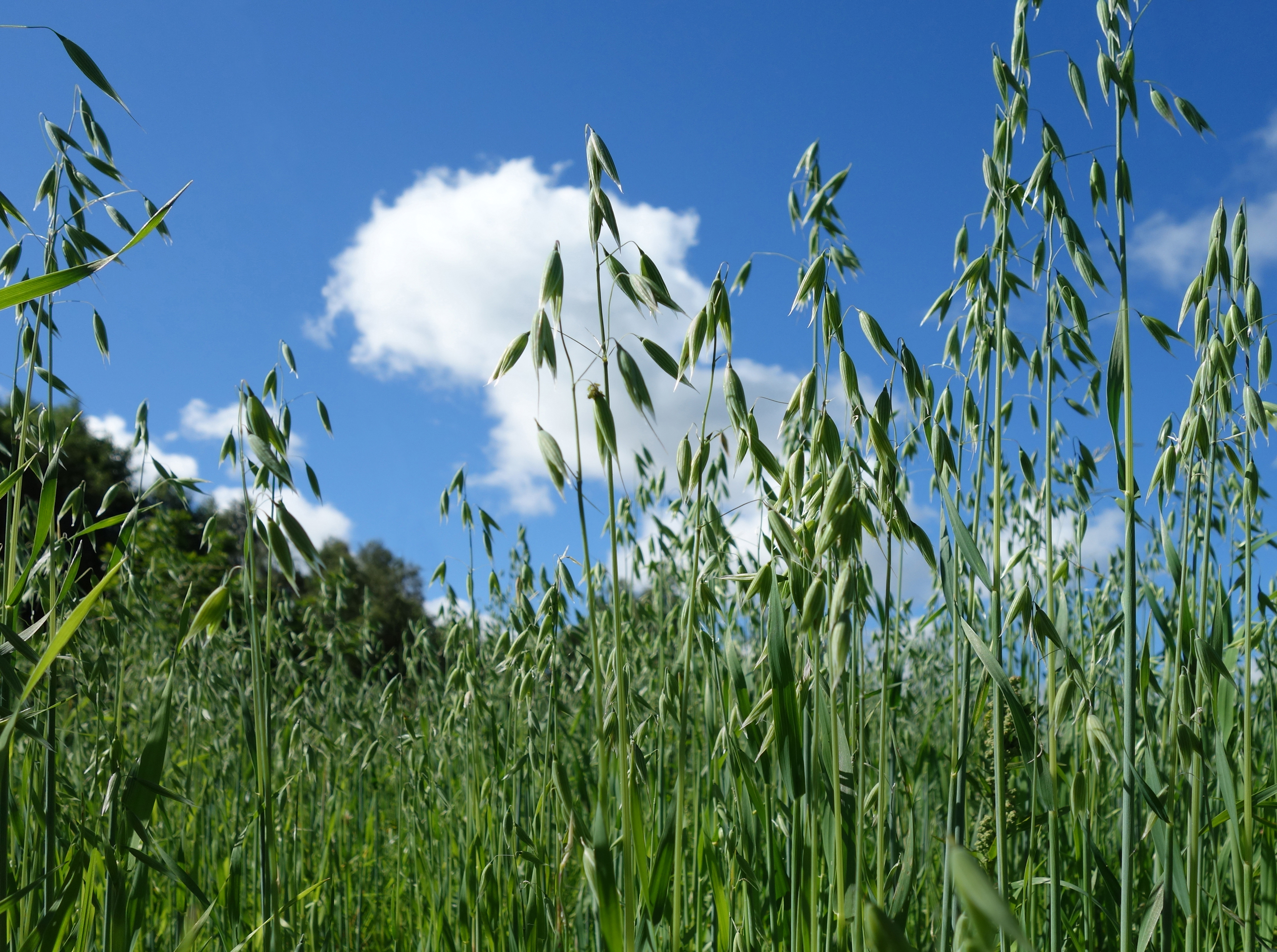 The edge of a small oat field at Gåseberga, Lysekil, Sweden.